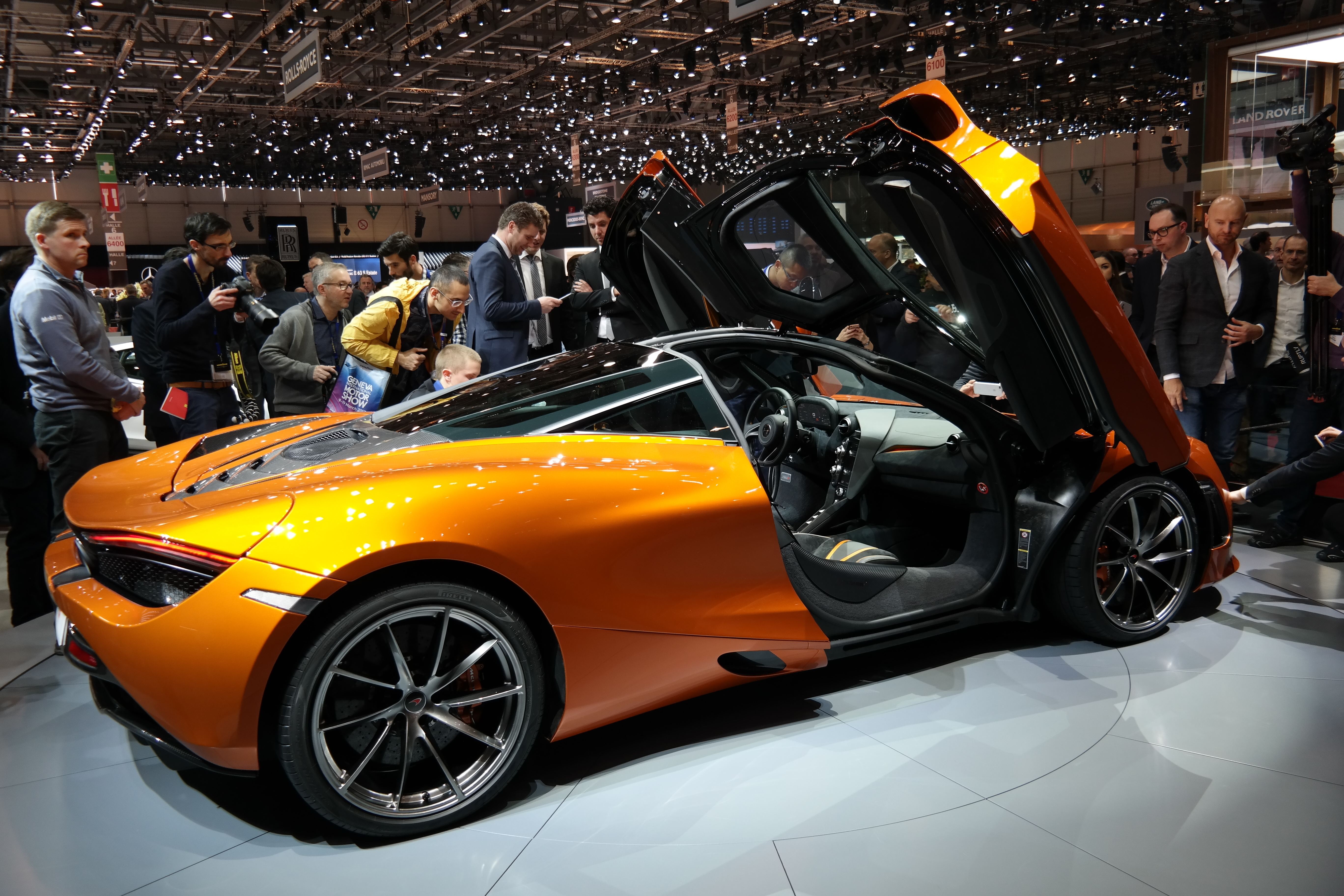 Geneva Motor Show 2017 (photo taken on the first press day)